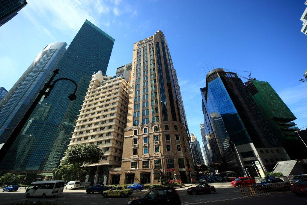 Former campus of the London School of Business and Finance at 1 Finlayson Green, Singapore.